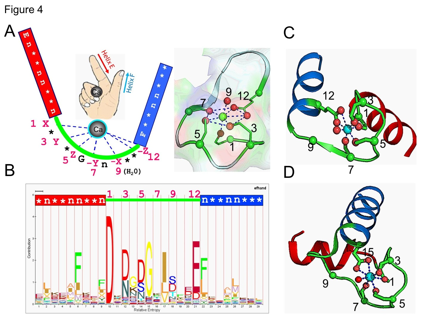 The helix-loop-helix EF-hand Ca2+ binding motif. (A), Cartoon illustration of the canonical EF-hand Ca2+-binding motif. The EF-hand motif contains a 29-residue helix-loop-helix topology, much like the spread thumb and forefinger of the human hand. Ca2+ is coordinated by ligands within the 12-residue loop, including seven oxygen atoms from the sidechain carboxyl or hydroxyl groups (loop sequence positions 1, 3, 5, 12), a main chain carbonyl group (position 7), and a bridged water (via position 9). Residue at position 12 serves as a bidentate ligand. The Ca2+ binding pocket adopts a pentagonal bipyramidal geometry. n stands for hydrophobic residue. (B), HMM logo for the canonical EF hand motif ( The conservation of amino acids at several positions makes it possible to predict EF-hand motifs from genomic sequences. (C), 3D structure of a typical canonical EF-hand motif from calmodulin (PDB code: 3cln). Ca2+ is chelated by ligands from a 12-residue loop. (D), 3D structure of an EF-hand-like motif from a soluble fragment of lytic transglycosylase B of Escherichia coli (PDB code: 1qut). This motif contains a 15-residue (instead of 12-residue) Ca2+-binding loop flanked by two helices.